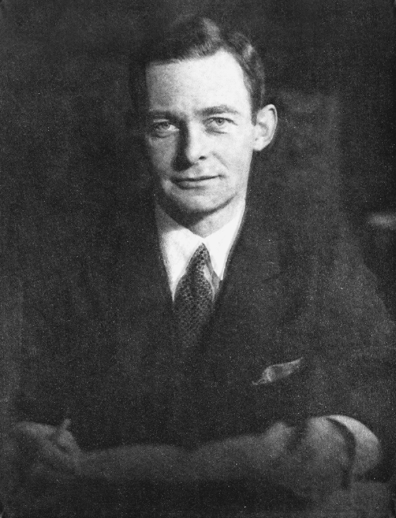 Fritz Günther von Tschirschky. Picture taken in 1934. The photographer died in the very same year (killed during the so-called "Night of the Long Knives"in July 1934).